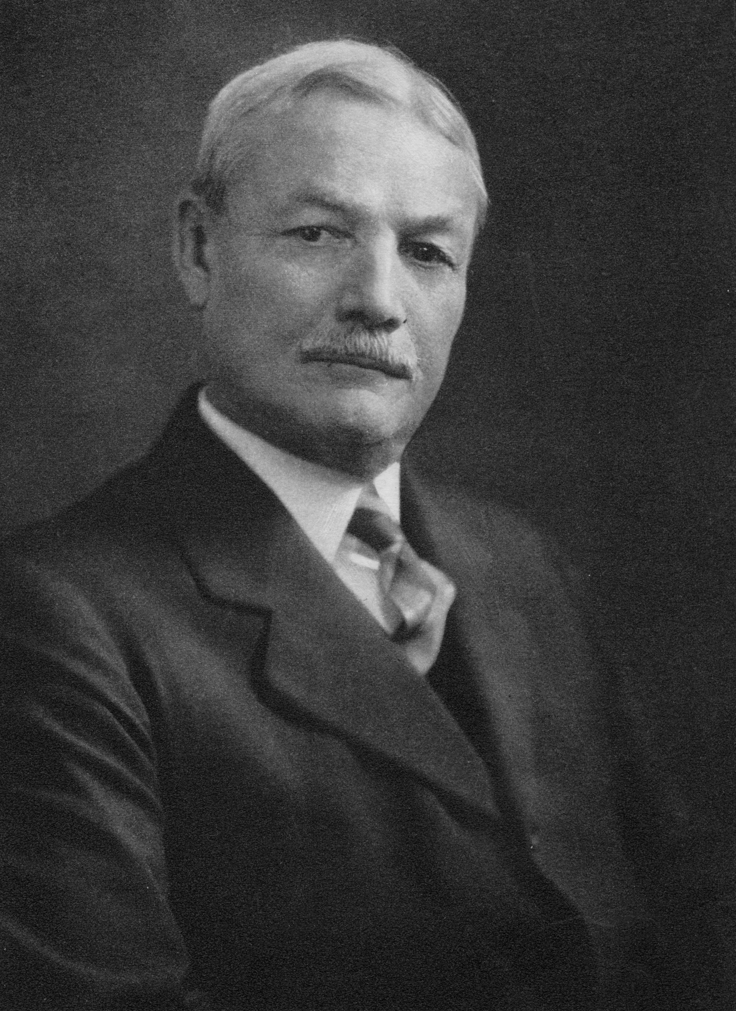 family photograph of historian Charles McLean Andrews